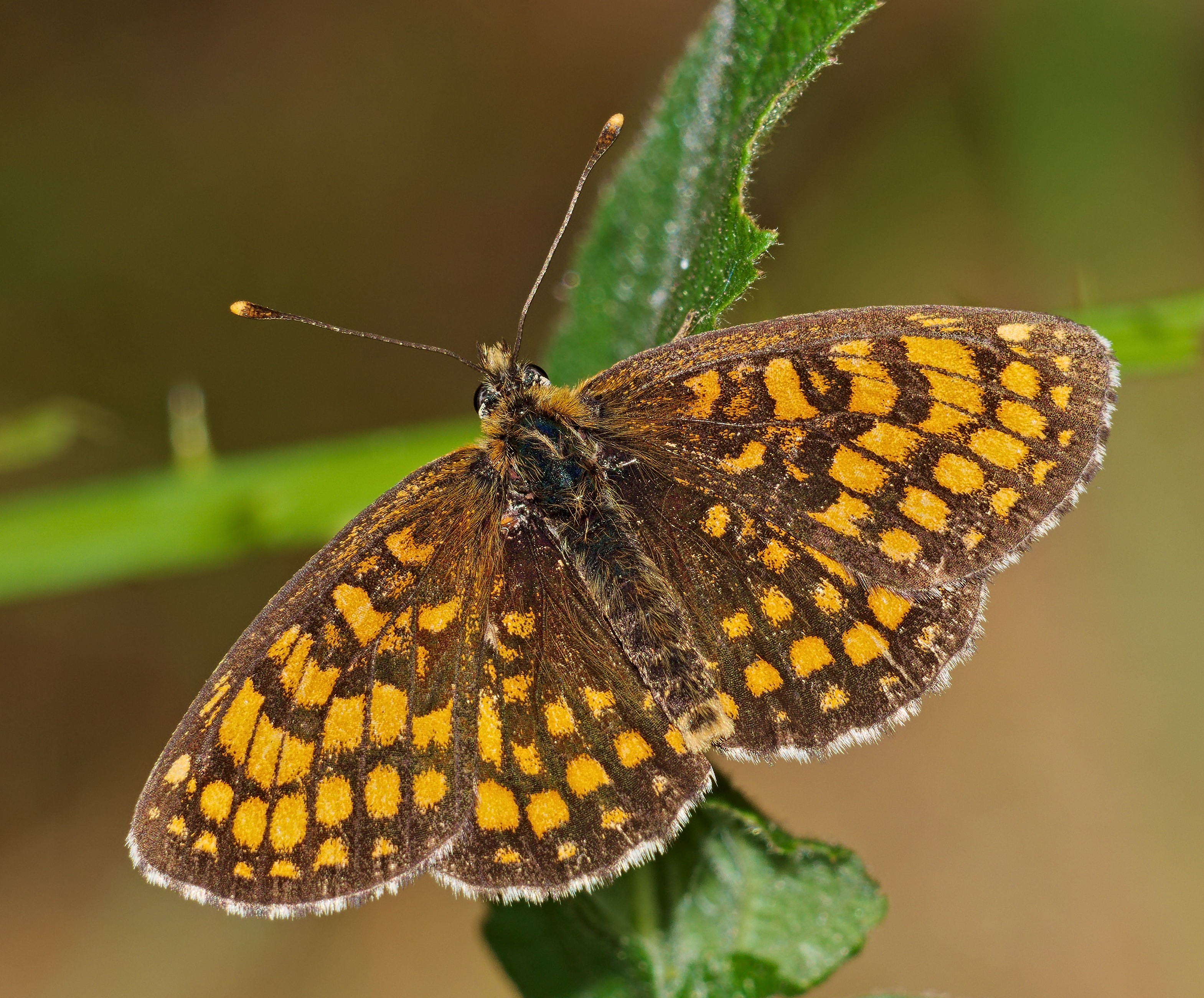 Melitaea sp., male. Taken by the Springsee in Wendisch Rietz, Brandenburg, Germany.